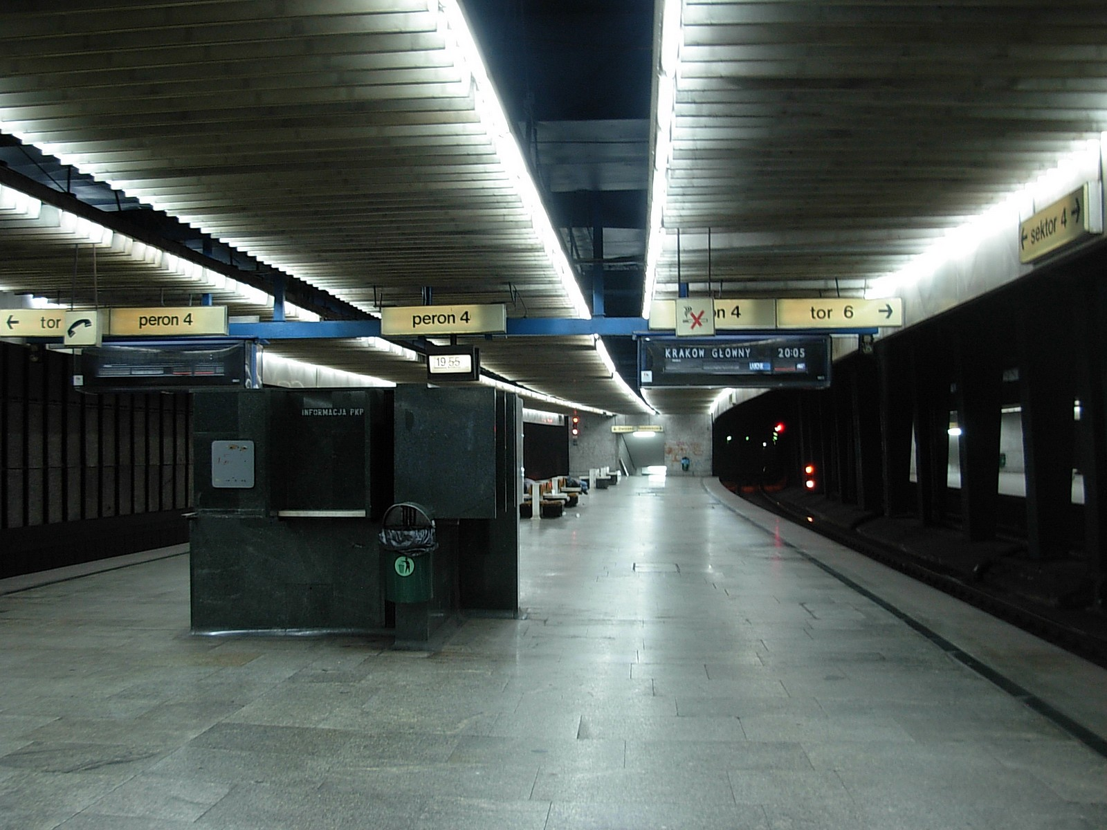 Warszawa Centralna rail terminal, platform 4